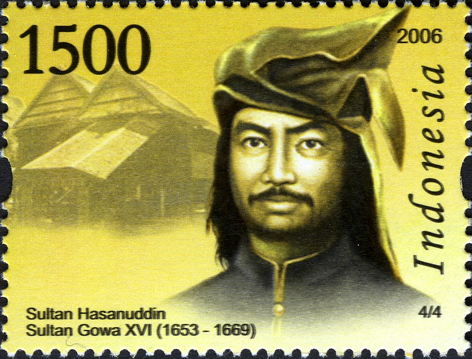 Stamps of Indonesia